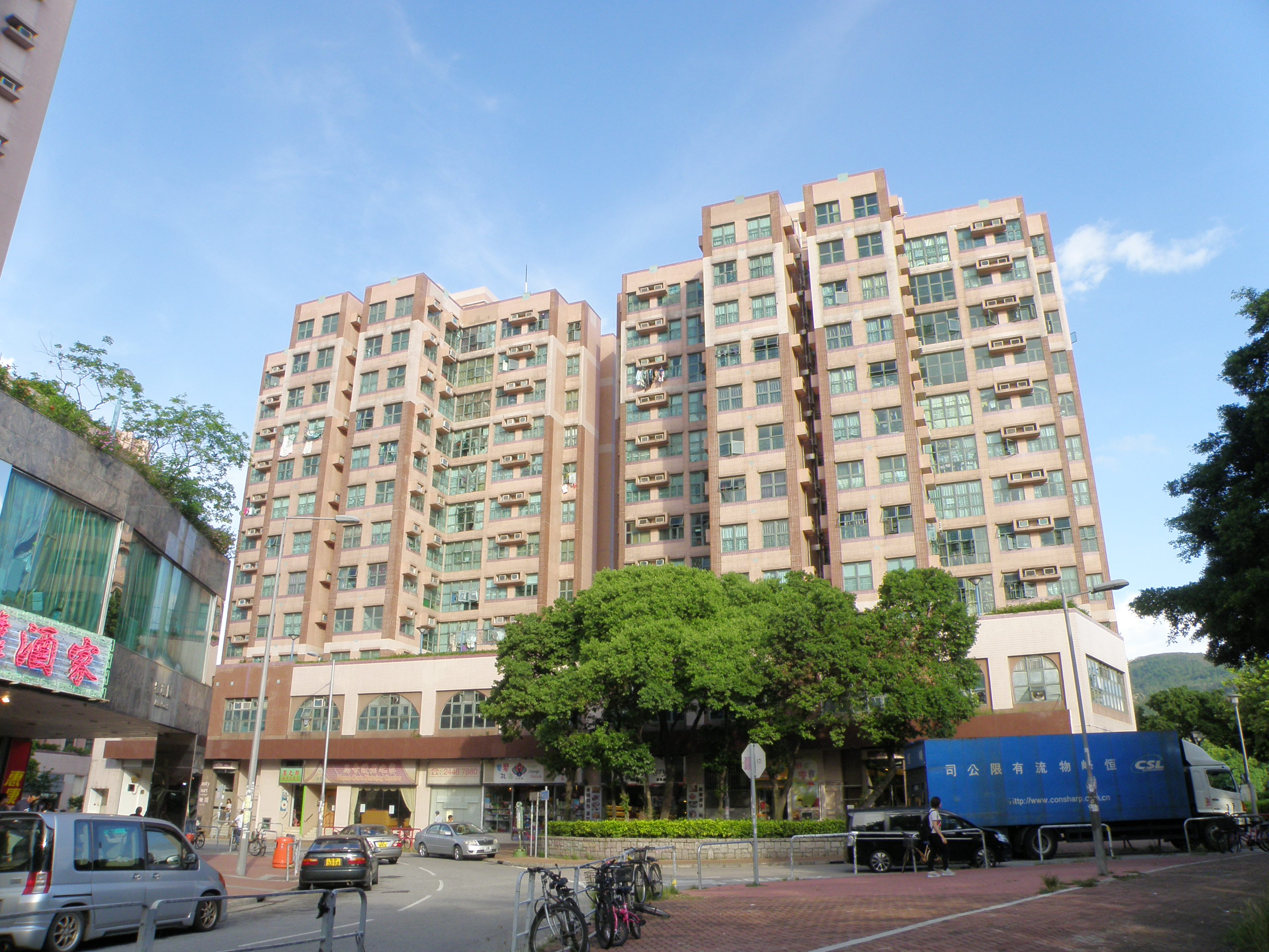 麗珊閣, Beauty Court in Hung Shui Kiu, Hong Kong.